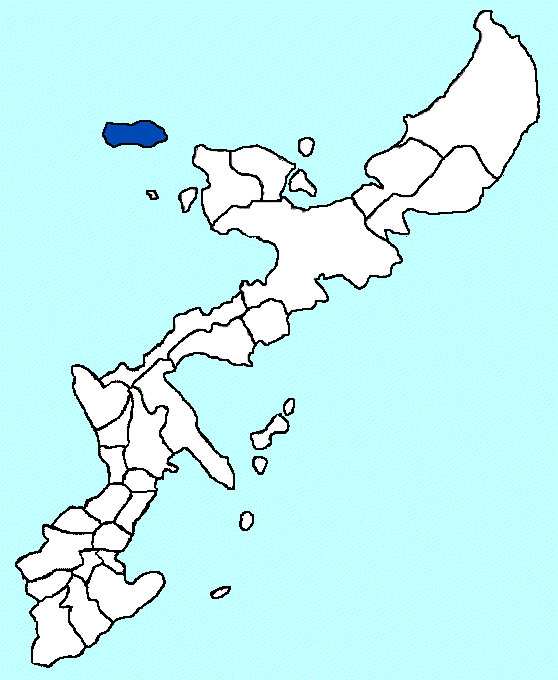 The location of Ie Village in Okinawa.